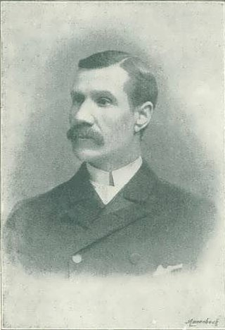 Photograph of Detective Chief Inspector John Littlechild (1848-1923) from The Sketch of June 21 1893